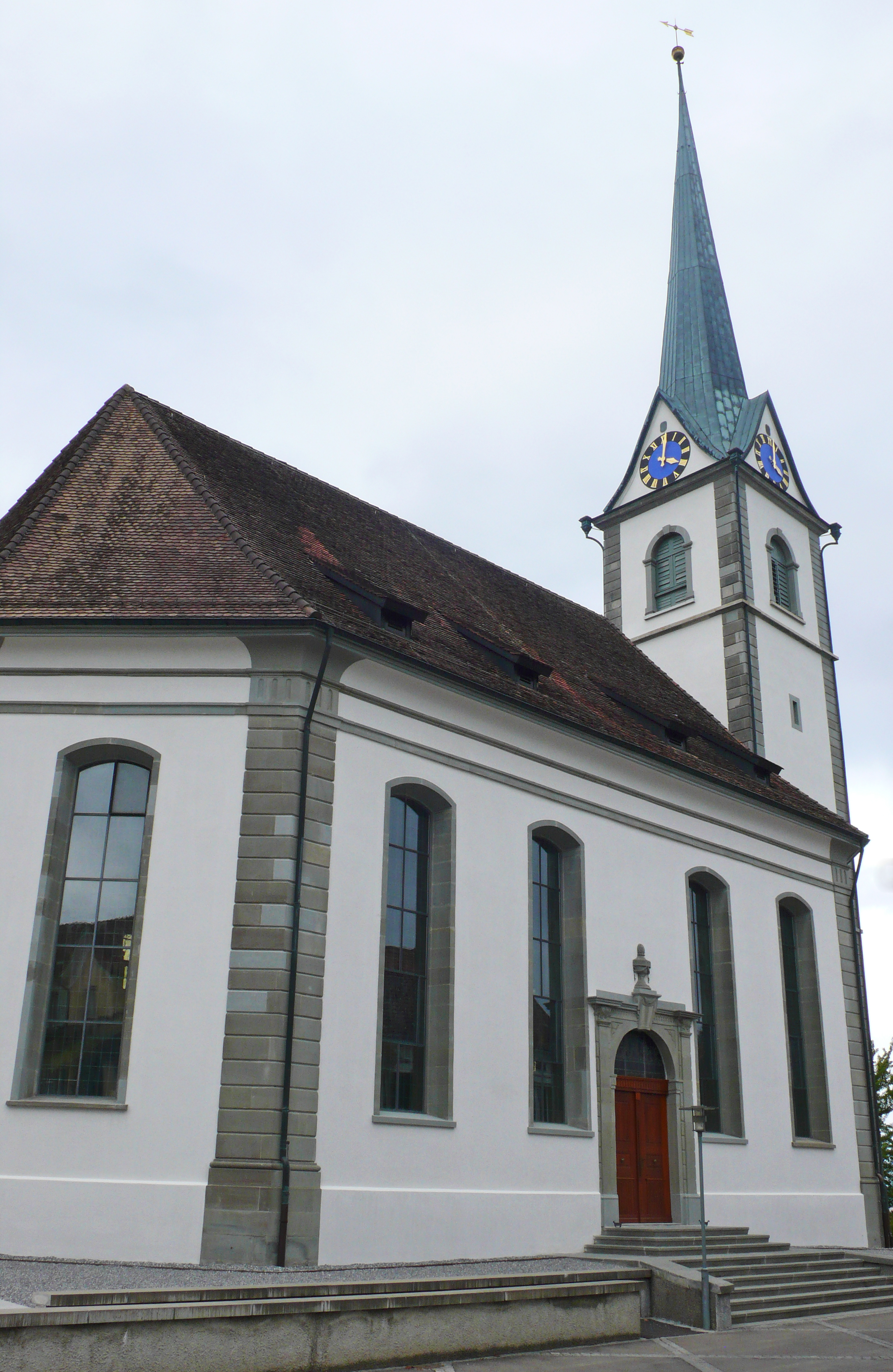 Protestant church of Altnau, Switzerland. Seen from SE.